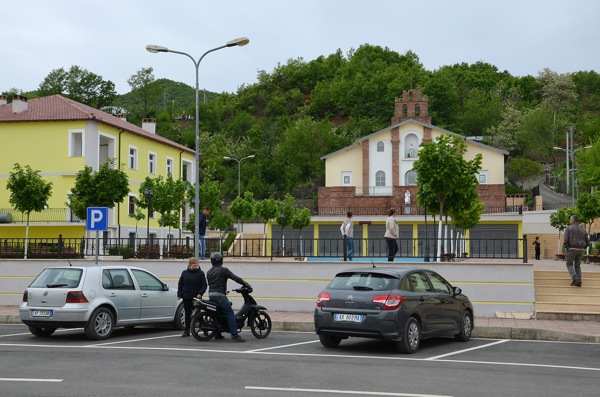 The main square (Sheshi Nënë Tereza) of Ulëz with the St Mark Church